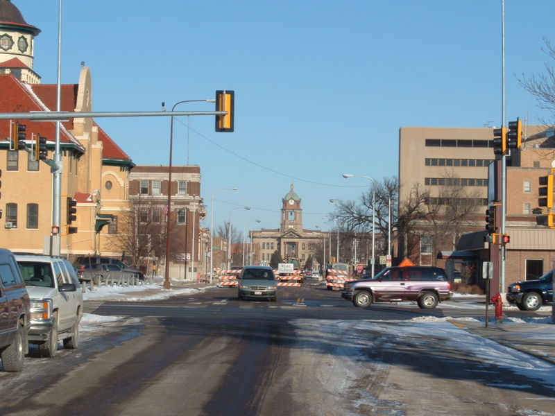 Bild von Aberdeen, South Dakota 04:17, 22 Februar 2006 H2O2 - The NRHP-listed Brown County Courthouse is at middle down the road. At left is the NRHP-listed First United Methodist Church.